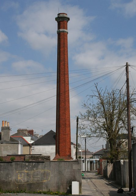 Wyndham Lane Sewer Gas Chimney. This 60 foot high chimney was built in the 1880's to disperse gas and sewer smells way over the heads of the residents. It is the only one of its kind left in the area.